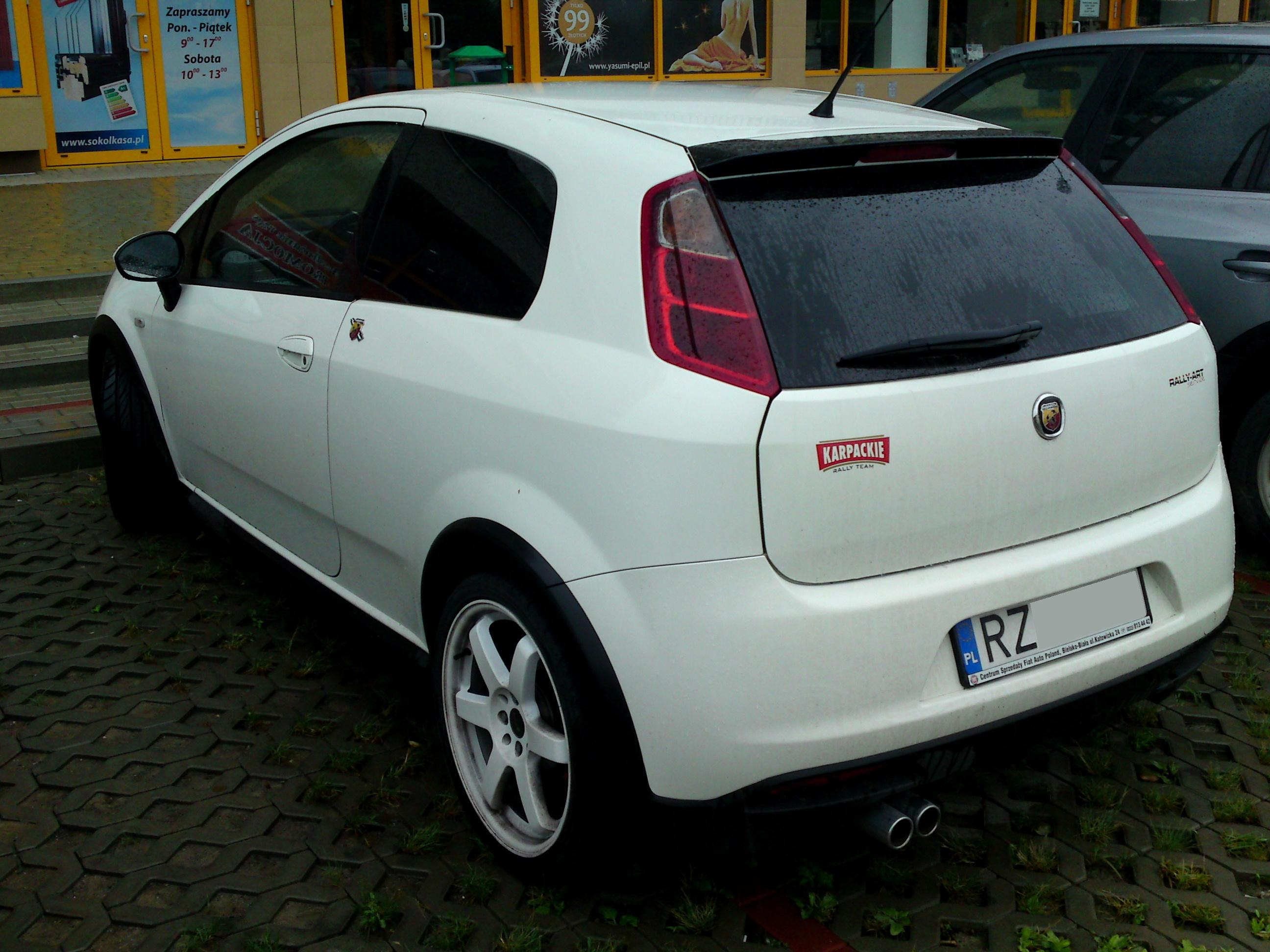 Abarth Grande Punto in Rzeszów